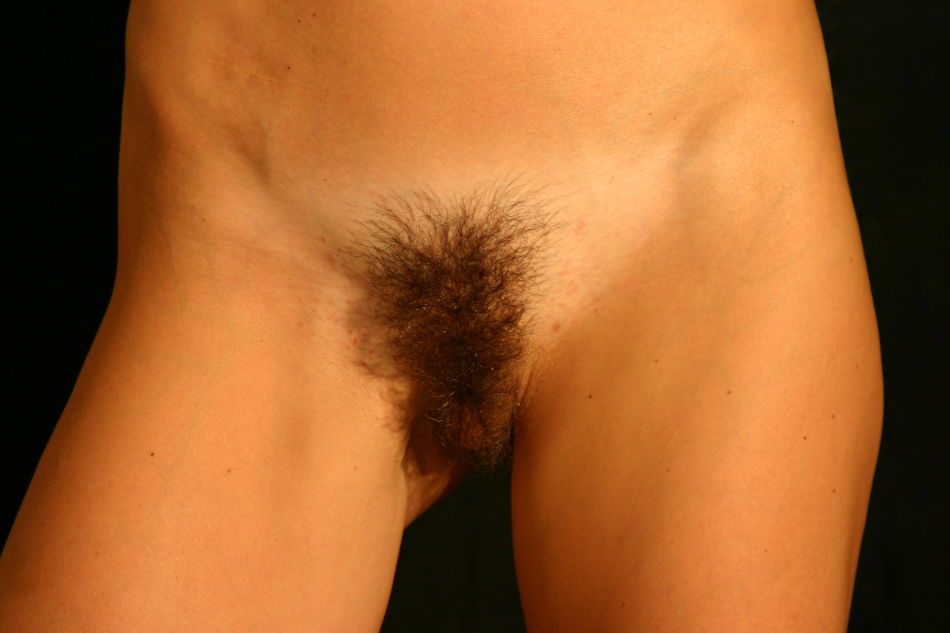 Pubic Hair (natural, untrimmed) Front view